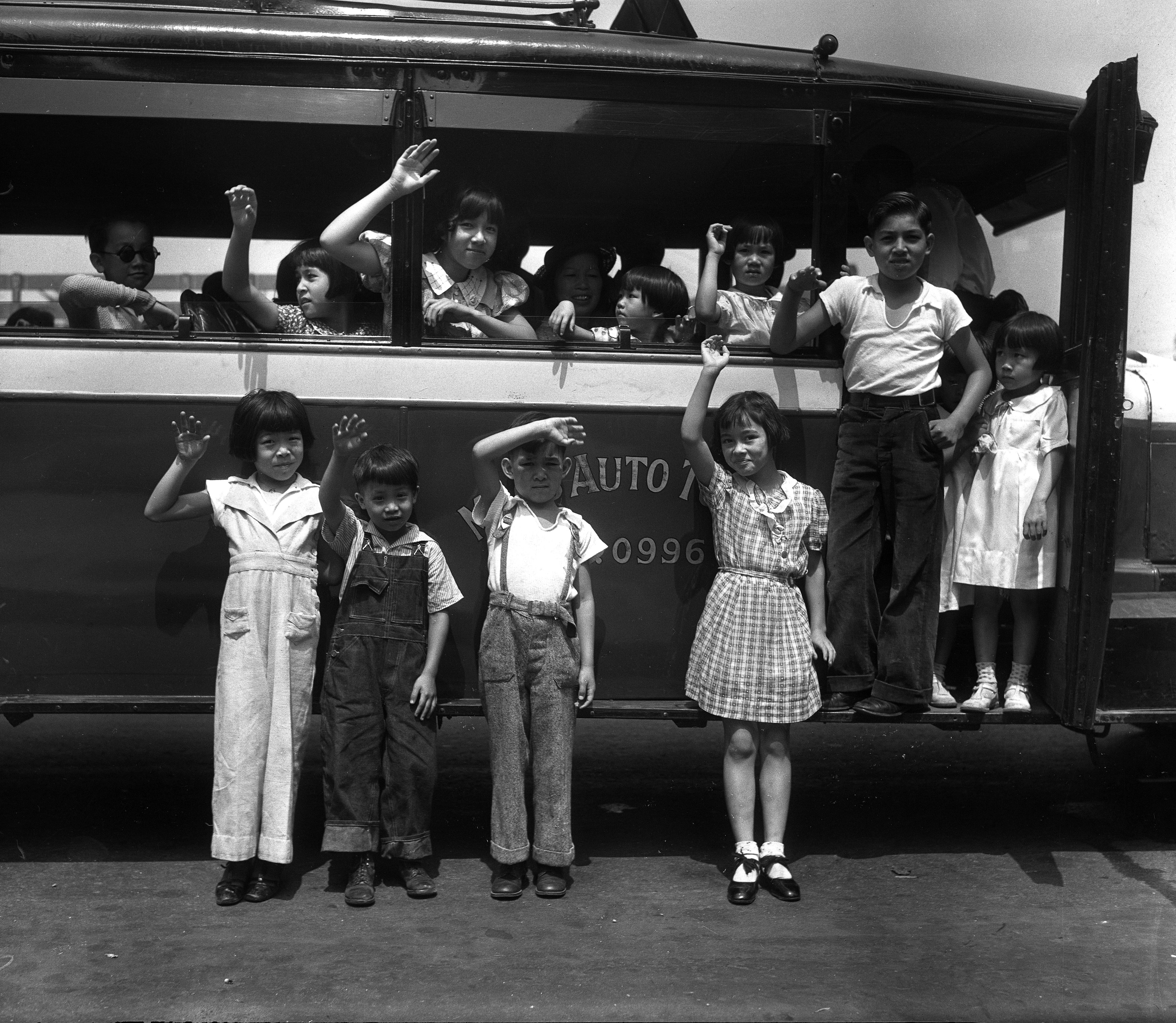 Title: Chinese American children waving from a car at picnic sponsored by Chinese Ladies' Union Missionary Society, Calif., 1936 Publication:Los Angeles Times Publication date:August 8, 1936 Source:Los Angeles Times photographic archive, UCLA Library Licensing Note about non-renewal of copyright: [1] Category:Images of California